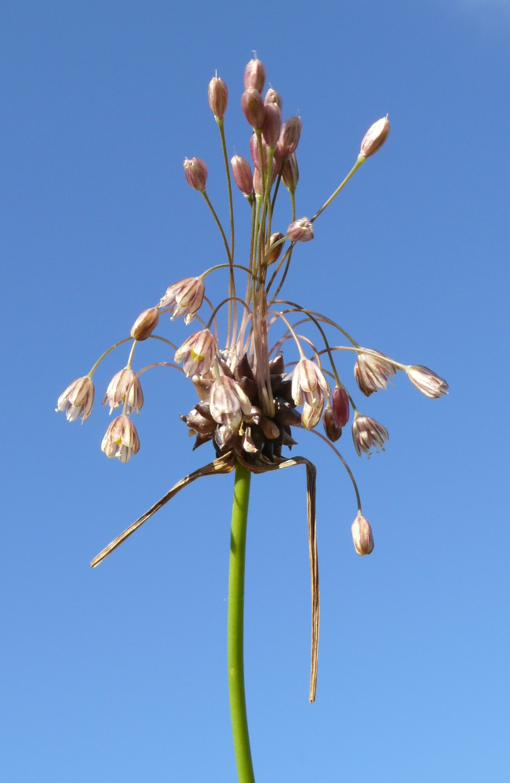 Allium oleraceum, Hohenlohe, Germany